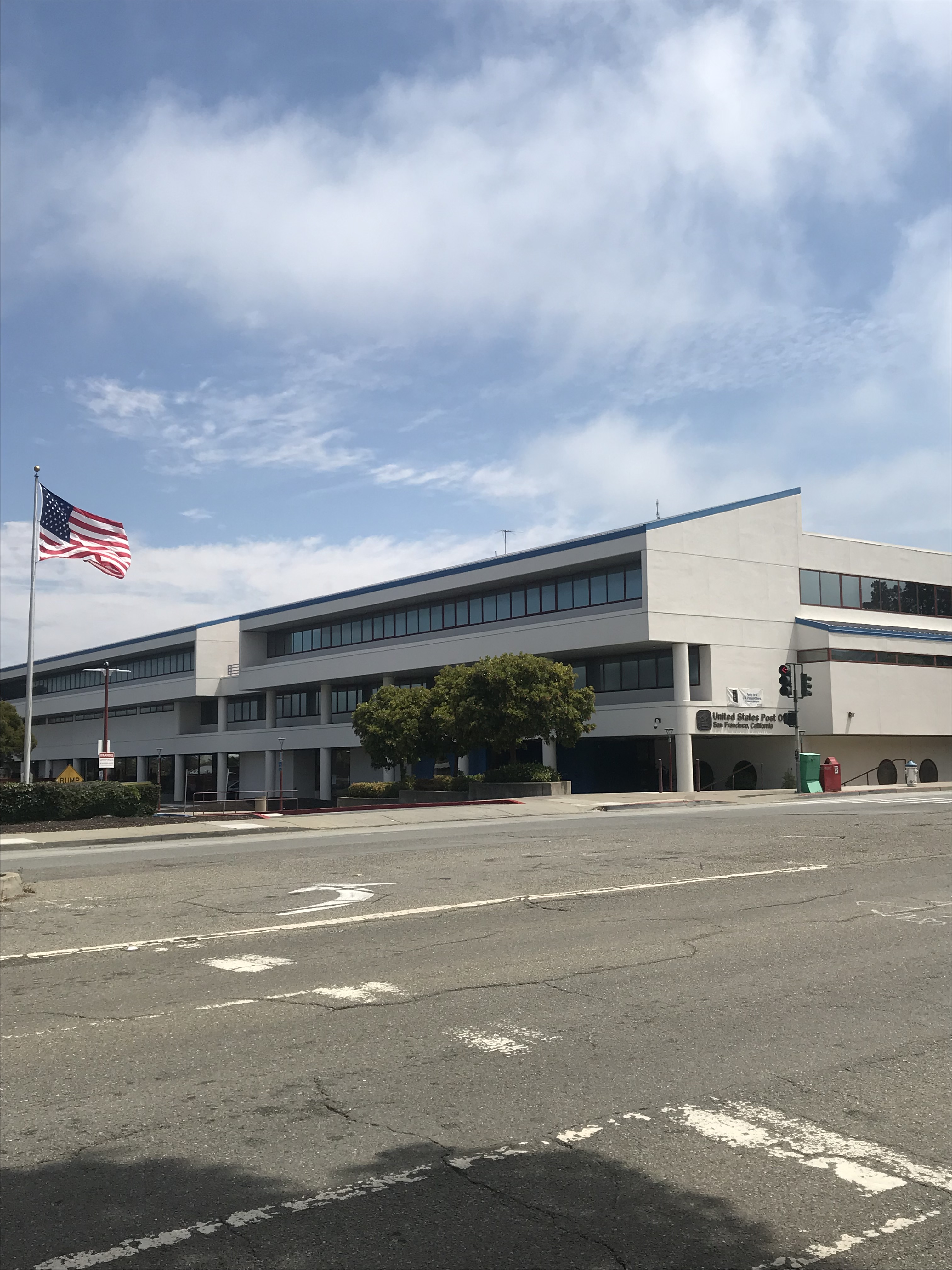 This is an image taken in 2018 of the United States Post Office taken on Evans Street in San Francisco's Bayview neighborhood.